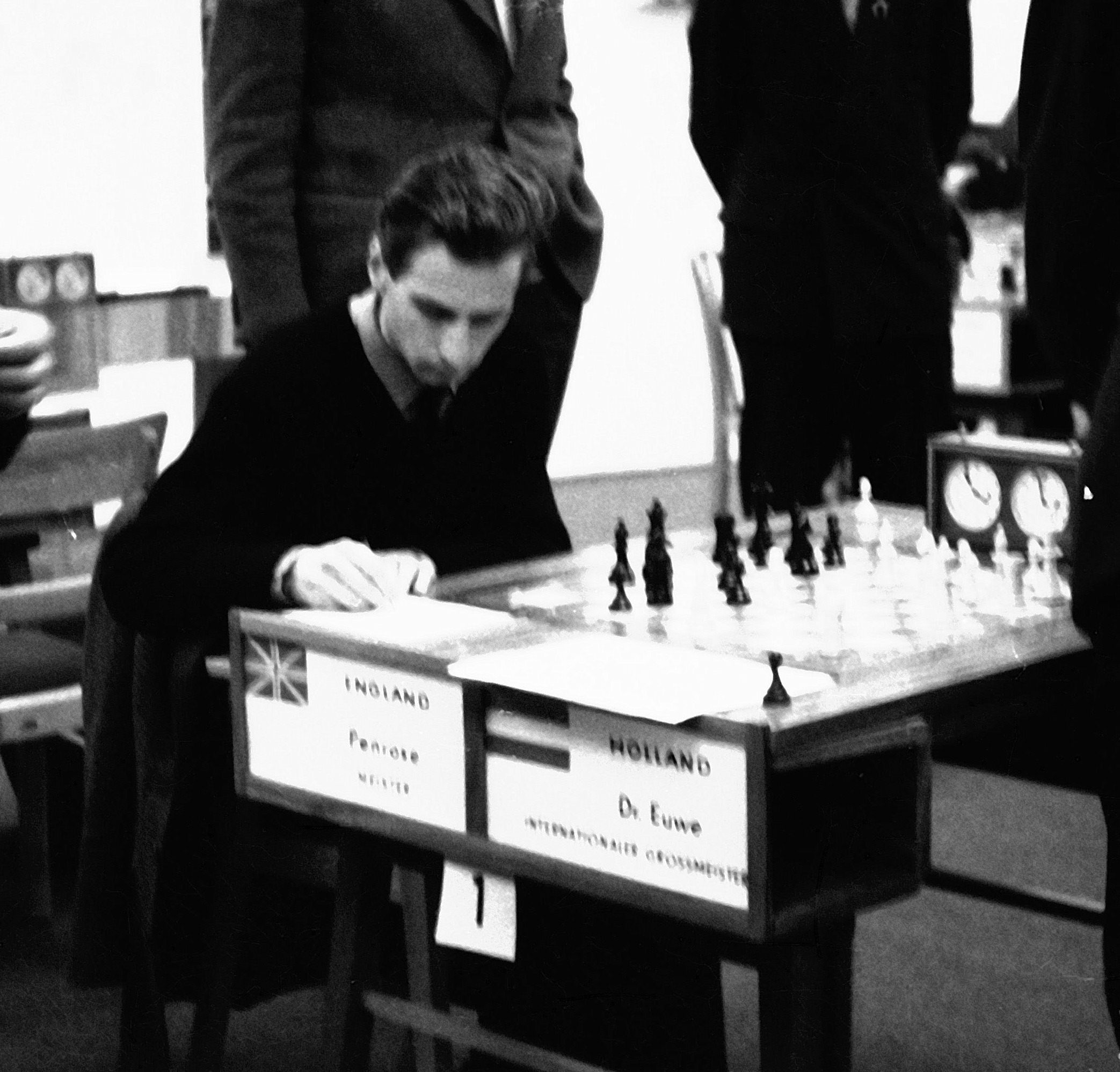 Jonathan Penrose, Chess Olympiad Leipzig, 1960